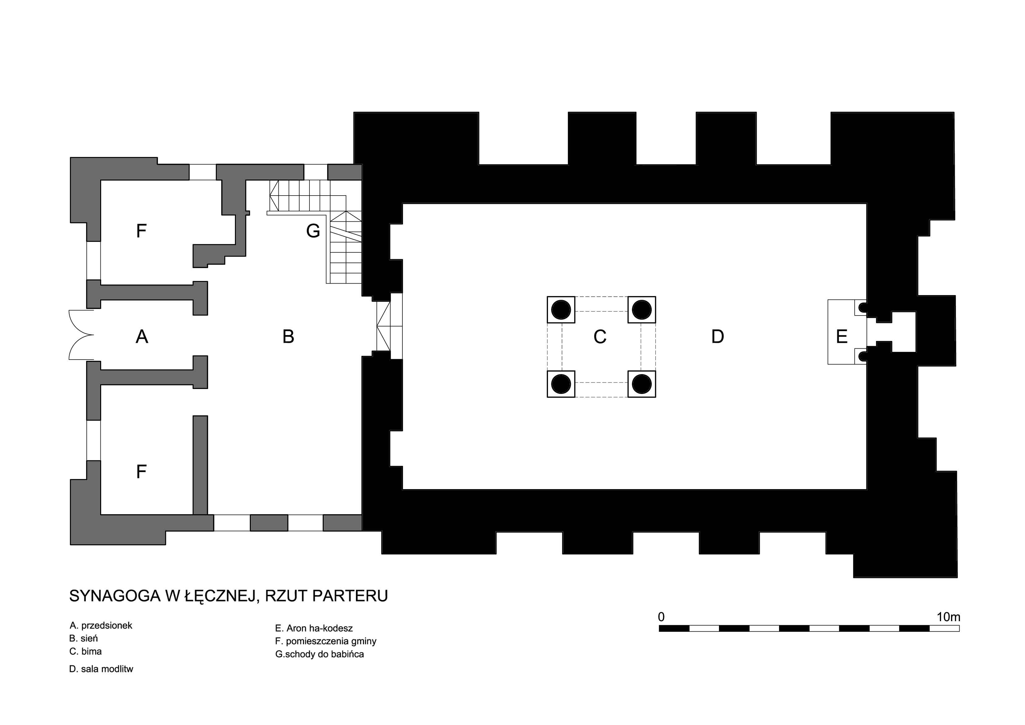 Synagogue in Łęczna - ground floor plan